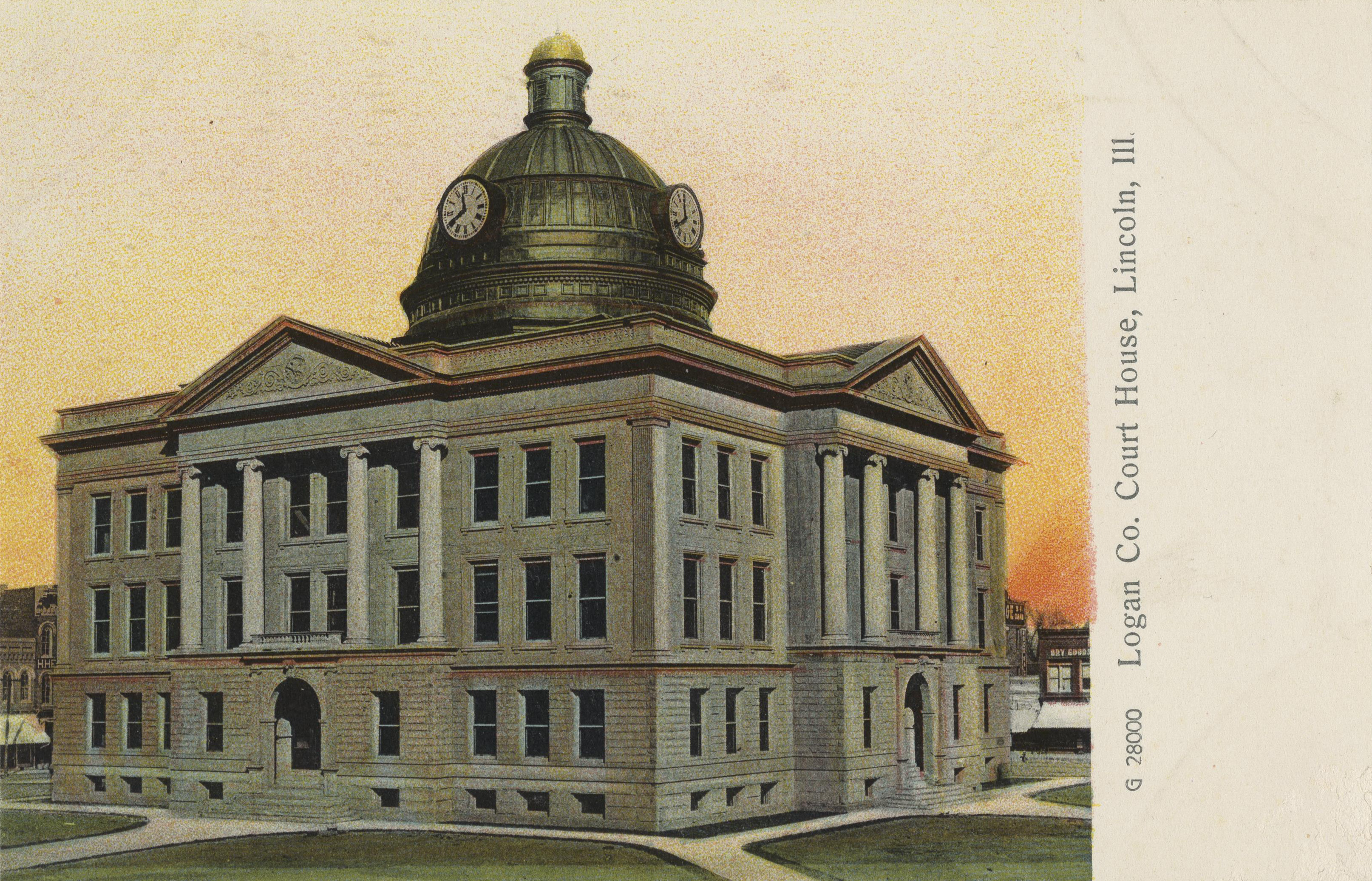 From the University of Maryland Digital Collections website: "A postcard featuring the Logan County courthouse in Lincoln, Illinois, circa 1901-1906. Postcard number: 28000."